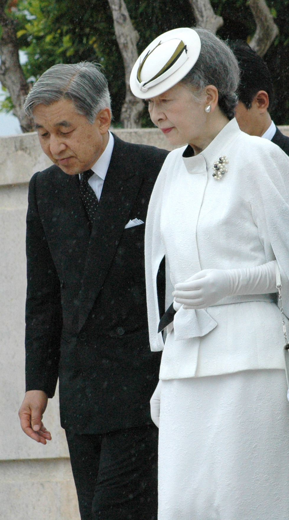 Emperor Akihito and Empress Michiko of Japan; 050628-N-7293M-093 Garapan, Saipan (June 28, 2005) – U.S. Navy Capt. Conrad Divis and U.S. Air Force 2nd Lieutenant Kazumi Udagawa escort the emperor and empress of Japan from the Court of Honor at the American Memorial Park during a historic visit by the royal family of Japan. Japanese Emperor Akihito and Empress Michiko made their first-ever trip to commemorate a World War II battle. The royal couple took time on Saipan to visit sites and monuments that remember Japanese, island civilian and American fallen service members in order to affirm the friendship that has grown between Japan and the United States. U.S. Navy photo by Photographer’s Mate 2nd Class Nathanael T. Miller (RELEASED)